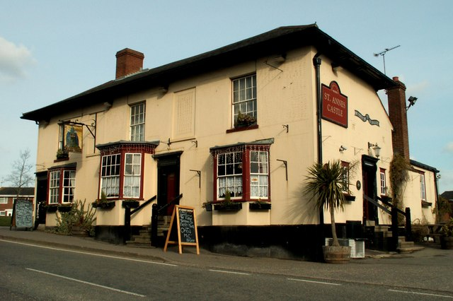 St. Annes Castle, Great Leighs, Essex. This public house claims to be the oldest licensed premises in the country. Although it doesn't look old from the outside, due to a fire a 100 years ago, there are many features inside to prove its age.